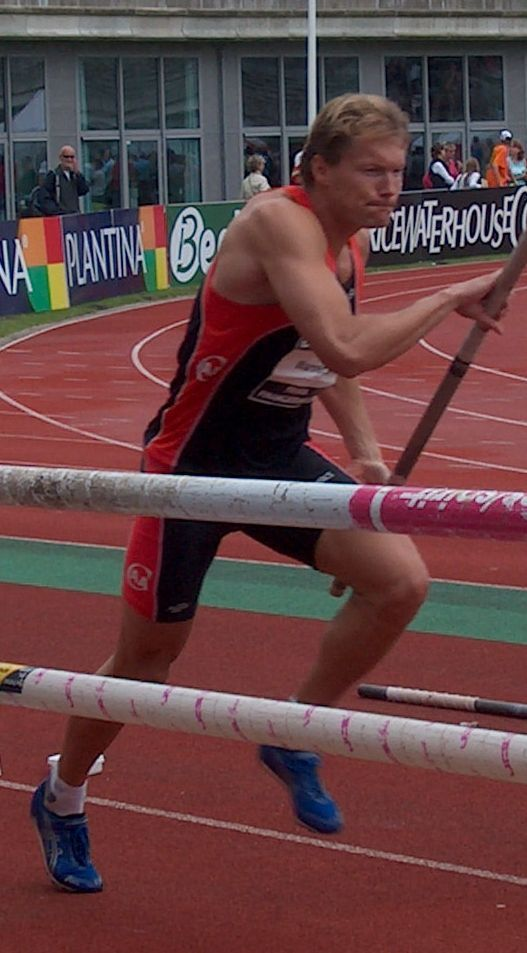 Chiel Warners, dutch decathlete, at dutch championships 2007, pole vault